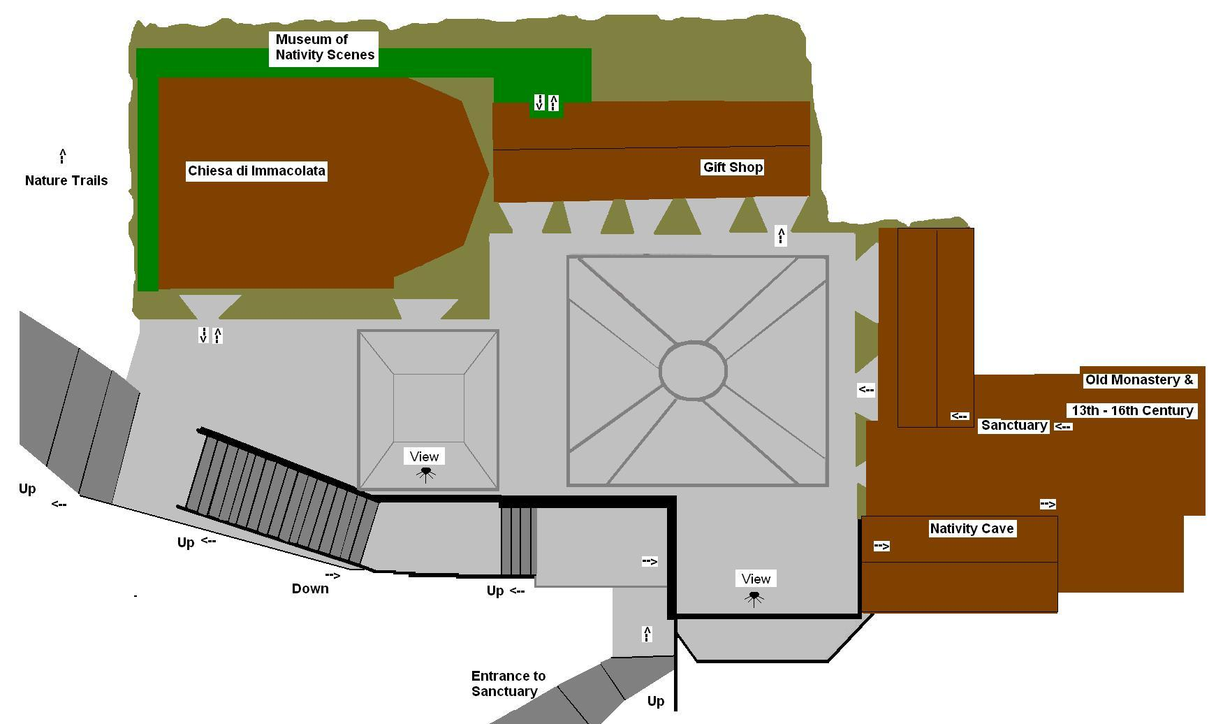 Plan of the Santuario di Greccio.